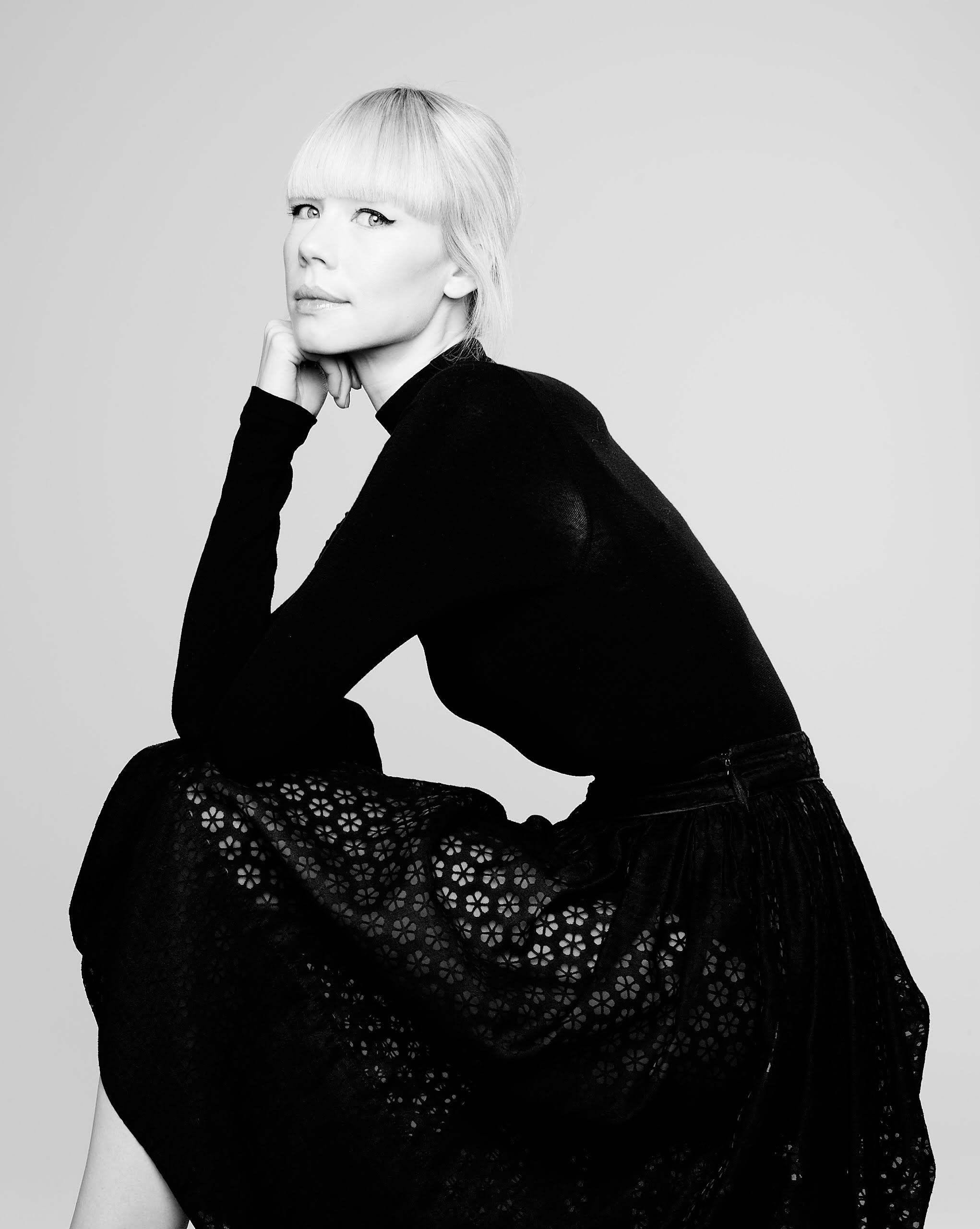 Studio image of Erin Fetherston from 2018. Photo credit is to Juan Algarin.